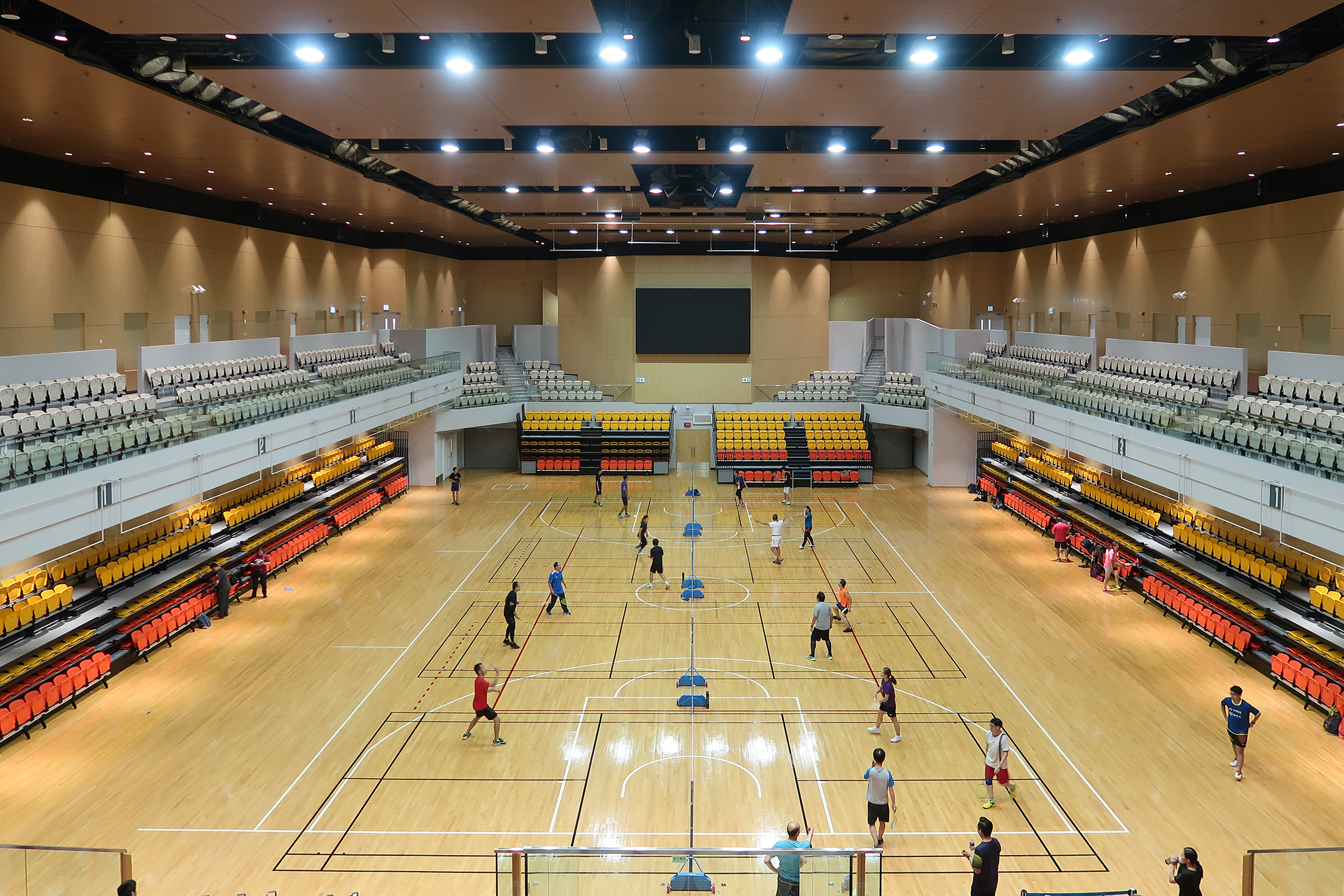 Tsuen Wan Sports Centre Main Arena